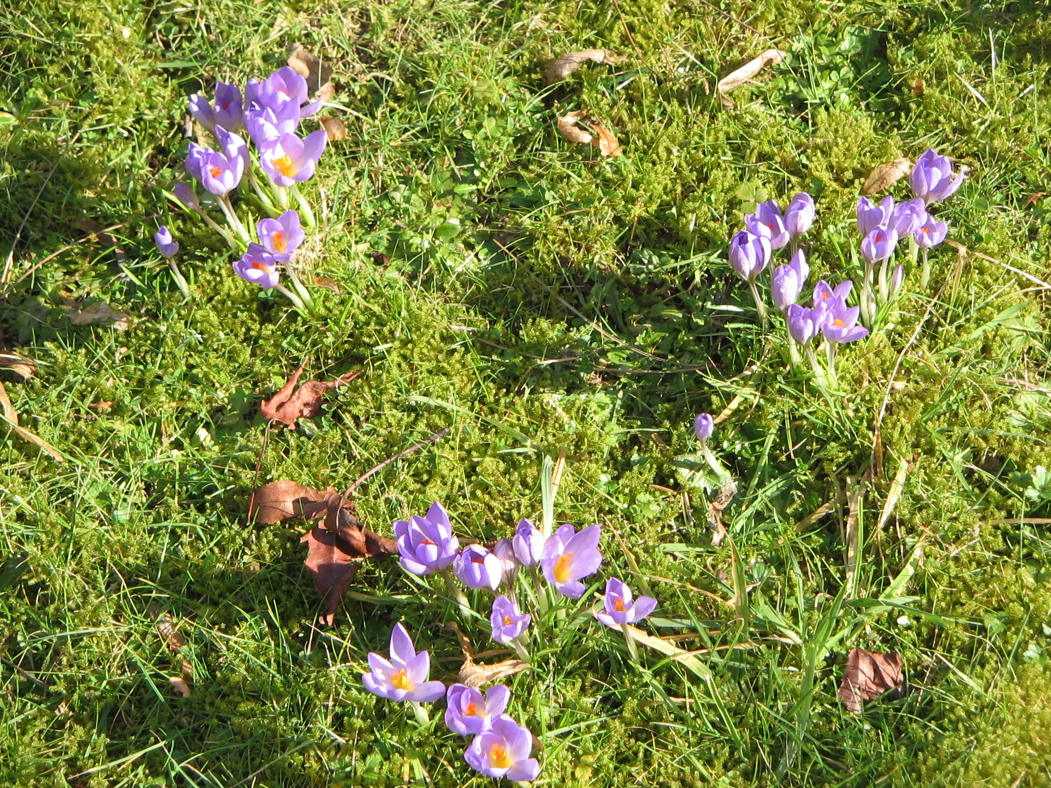 Crocus etruscus clump